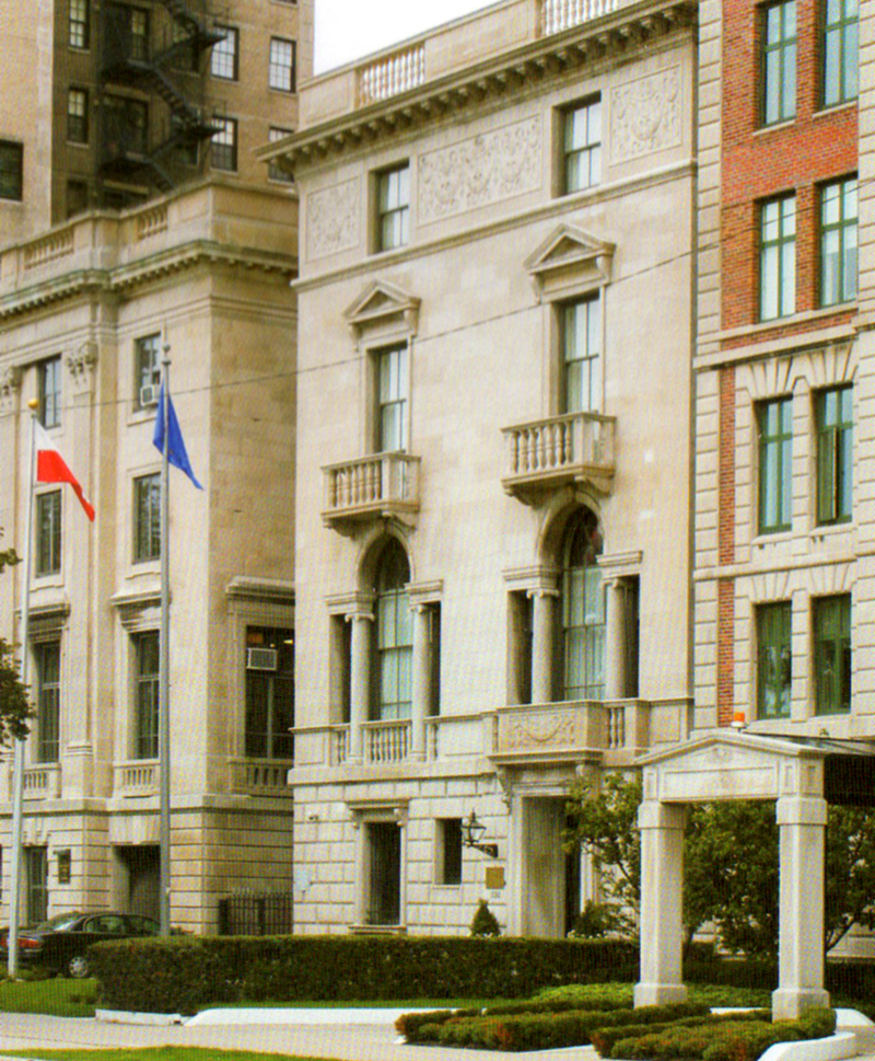 Polish Consulate General, Chicago